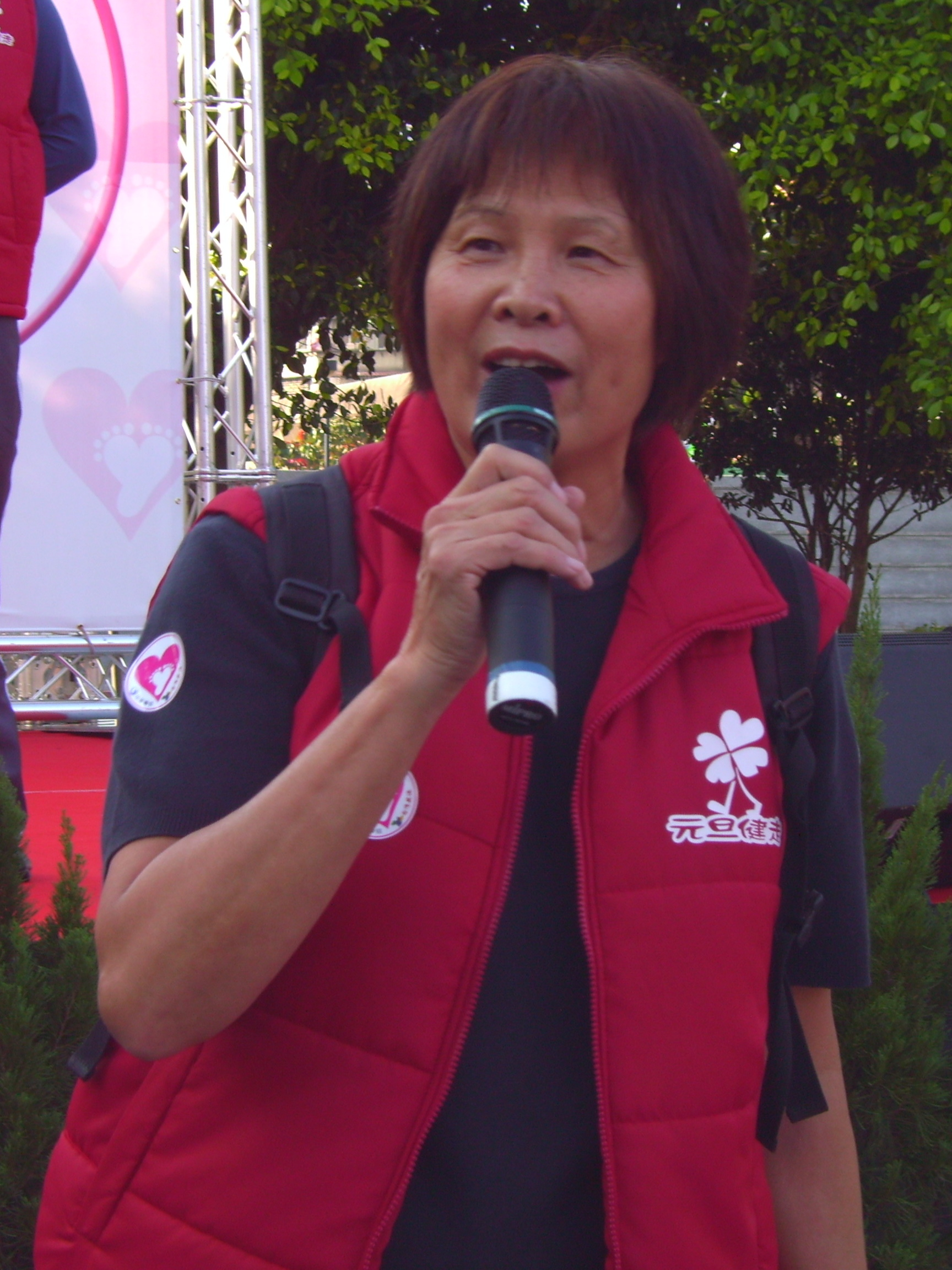 Chi Cheng is the founder of Hope Foundation in Taiwan.